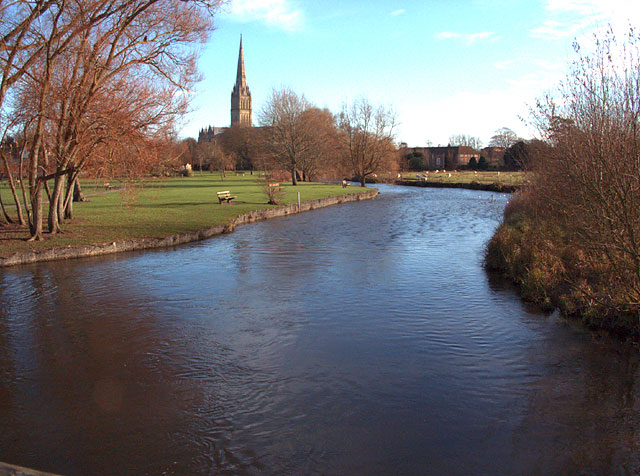 River Avon at Salisbury. This is actually the River Nadder just below Long Bridge.Richard Avery (talk) 16:20, 12 March 2018 (UTC)